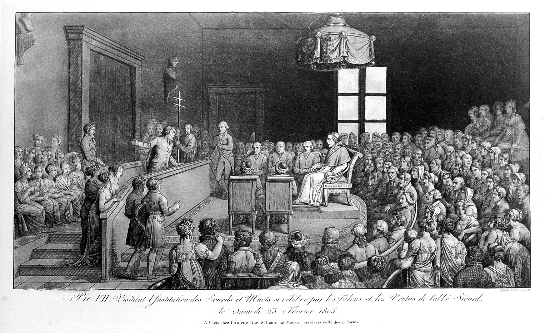 The Institut National des Sourds-Muets, Paris: interior during the visit of Pope Pius VII. Aquatint with etching by Marlé after himself, 1805. Iconographic Collections Keywords: Institut national des Sourds-Muets (Paris, France); Roch Ambroise Sicard; name VII,; Marli